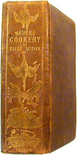 Cover of Eliza Acton's Modern Cookery for Private Families, 1847 edition (first published 1845)